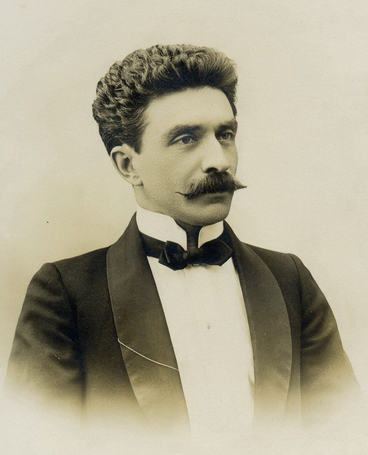 Aleksandr Shiryayev, a Russian ballet master and animator.